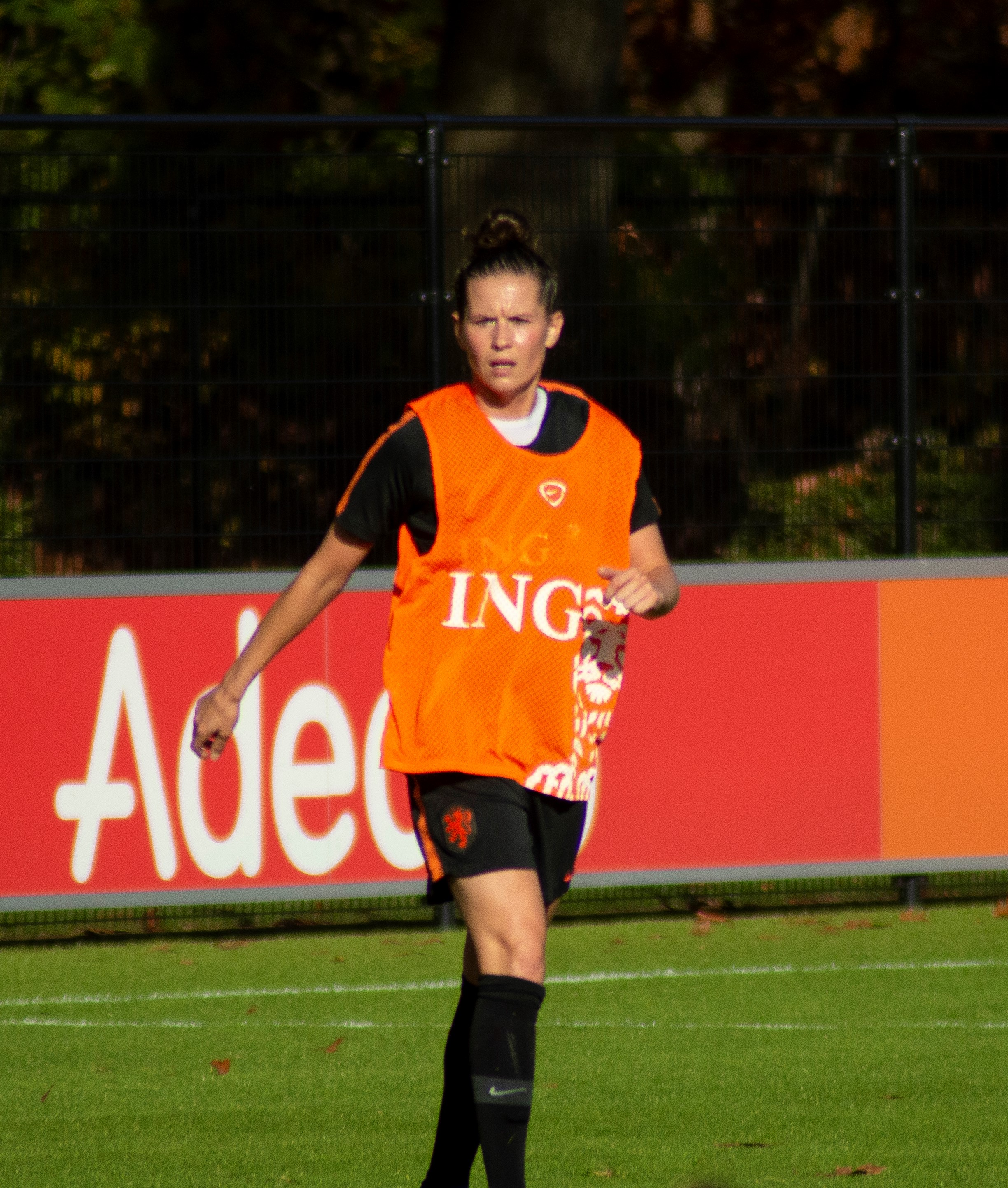 Merel van Dongen training with the Netherlands women's national football team on 6 November 2018.